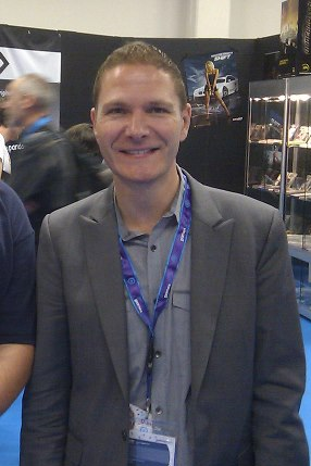 Julian Eggebrecht, former president of Factor 5, at Gamescom 2012, Cologne.